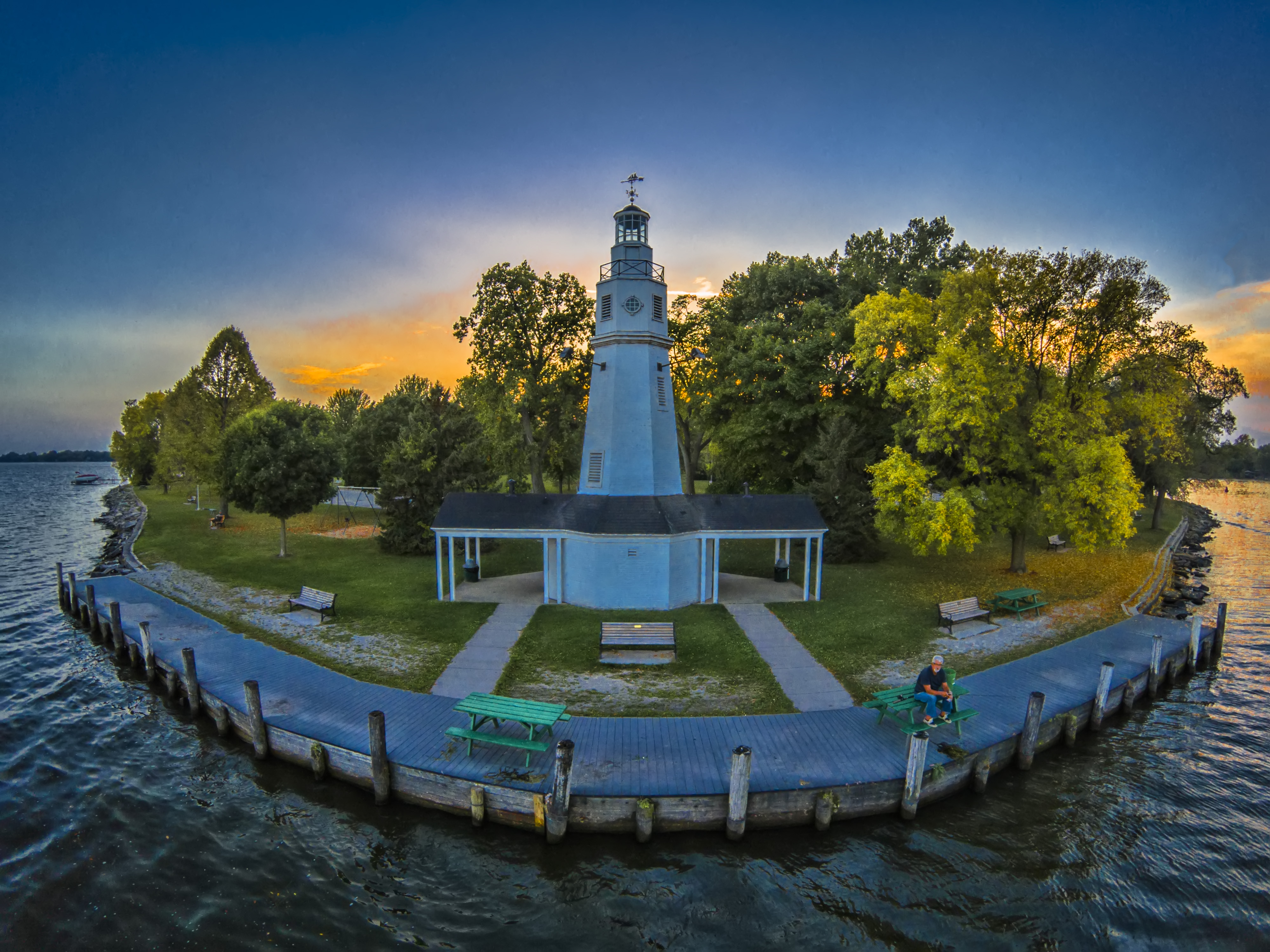 Sunset at the Neenah Lighthouse on Lake Winnebago.